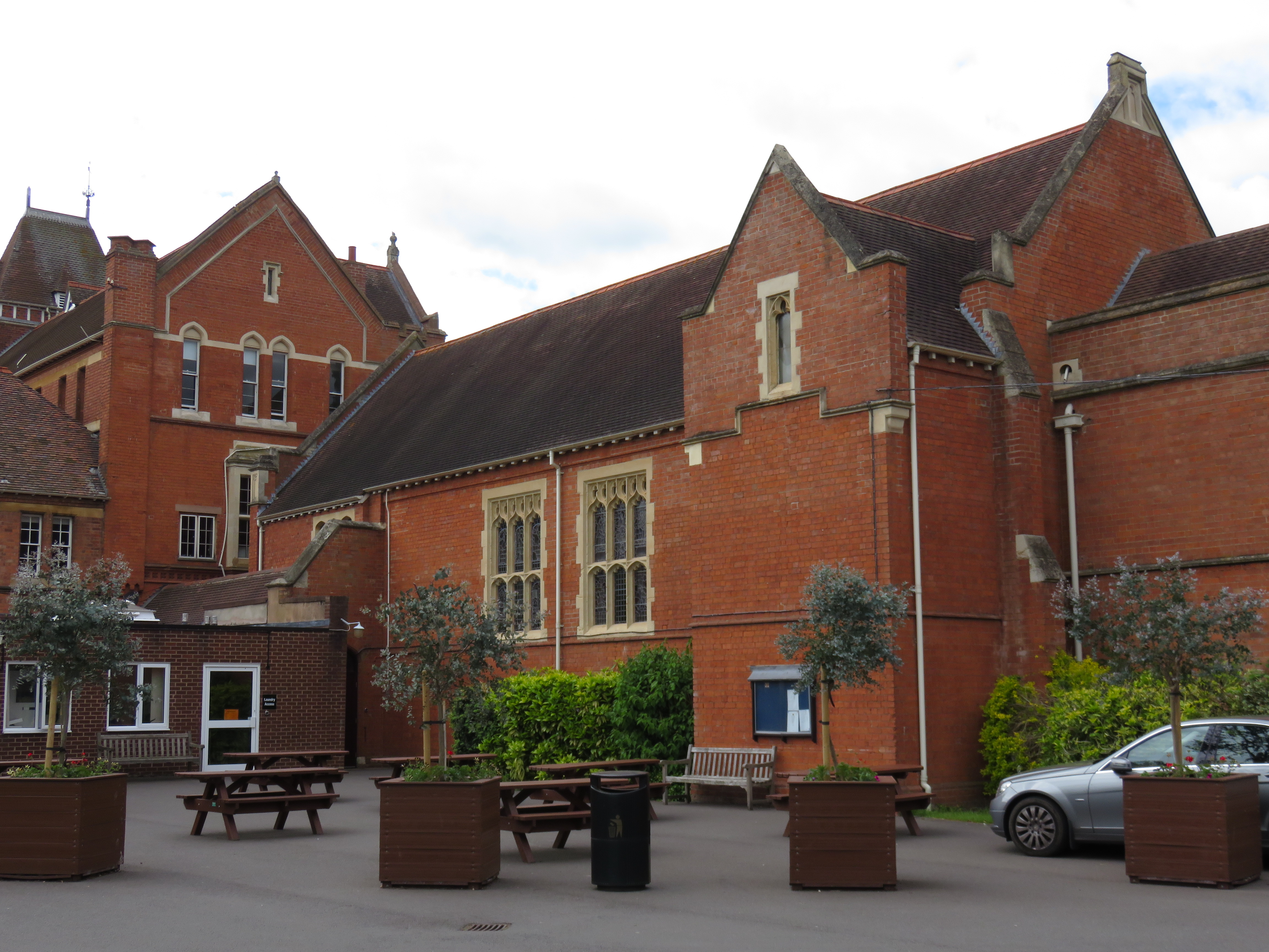 Warwick School's 1879 chapel, viewed from Chapel Quad.